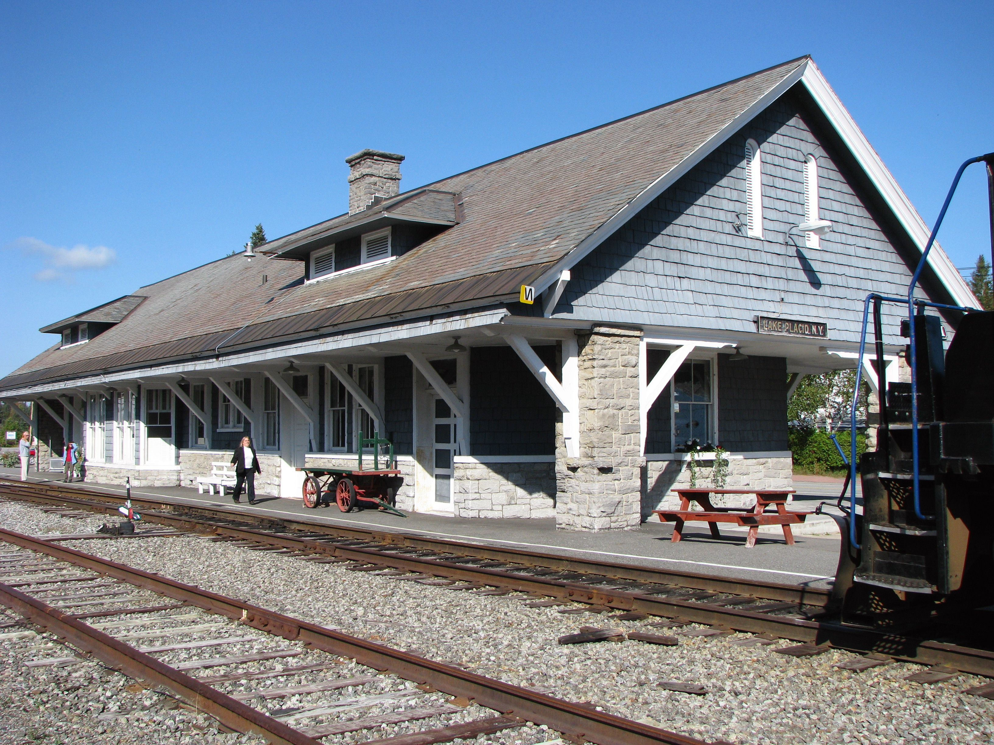 NY Central RR Station, Lake Placid, NY. Built 1903 by Delaware and Hudson Railway